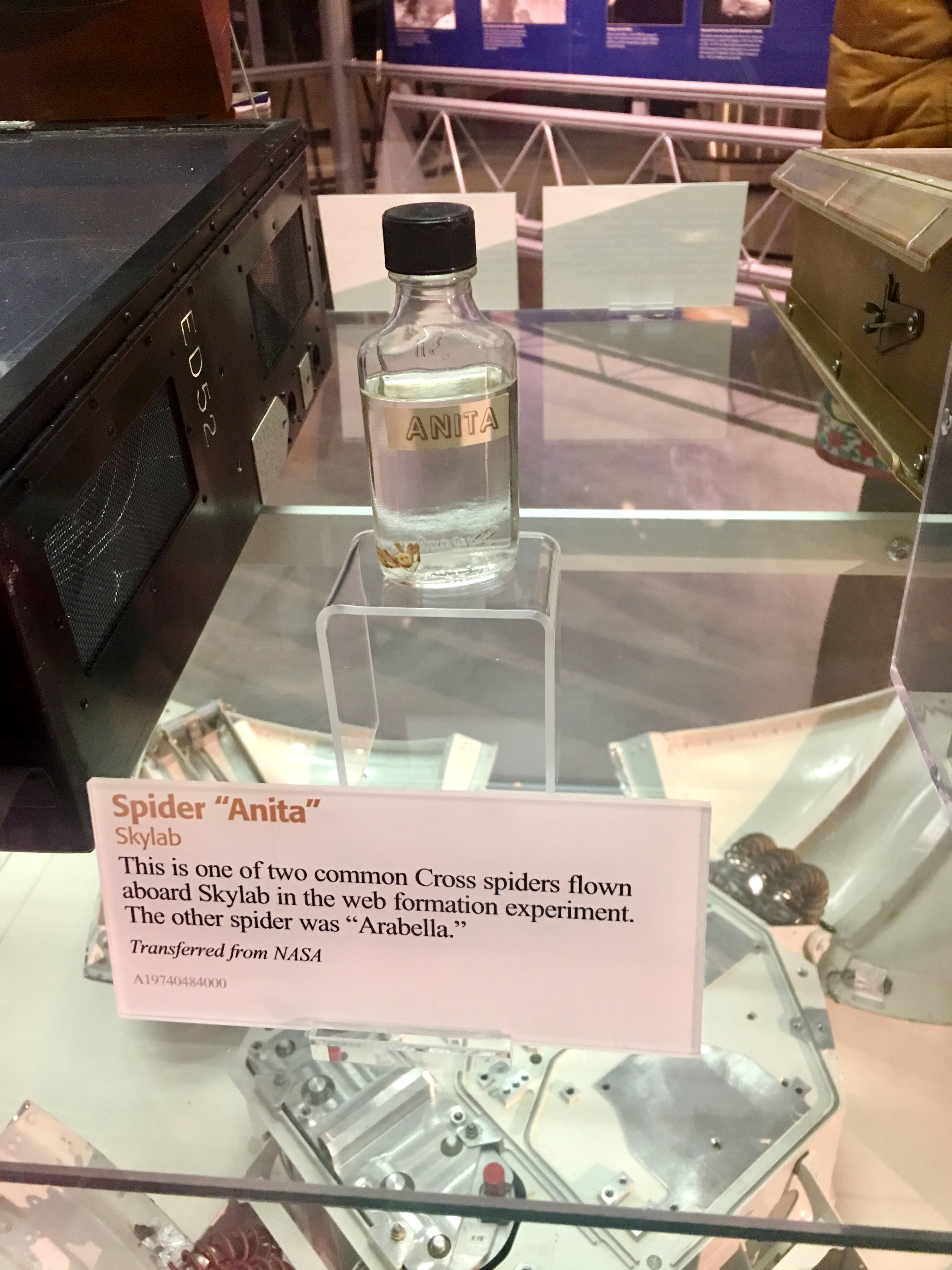 This is one of two common Cross spiders ﬂown aboard Skylab in the web formation experiment. The other spider was “Arabella.” - Transferred from NASA